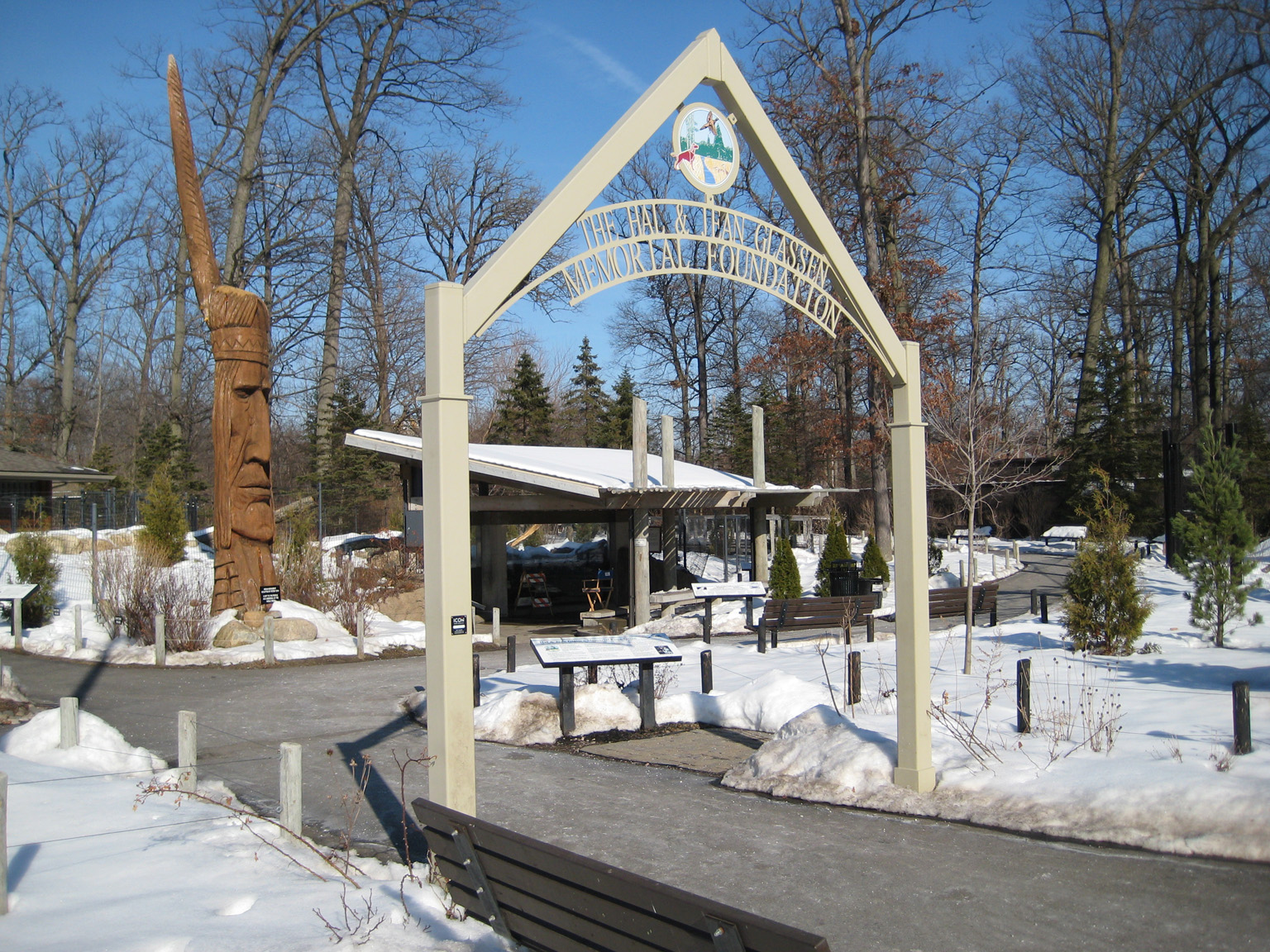 Lansing, Michigan, Potter Park Zoo in winter, near park entrance. March 1, 2011